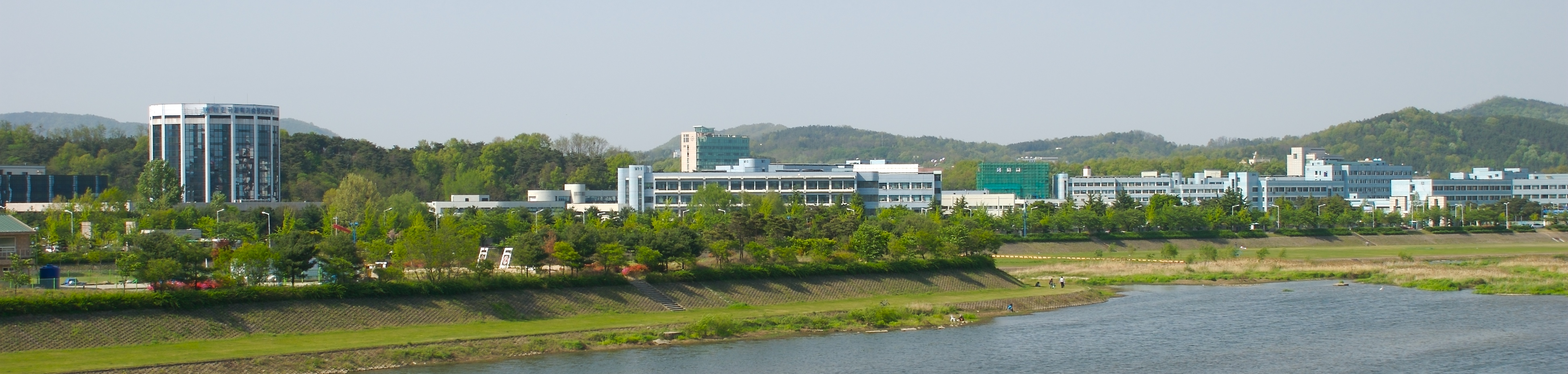 Photograph of KAIST across Gapcheon in Daejeon, South Korea.